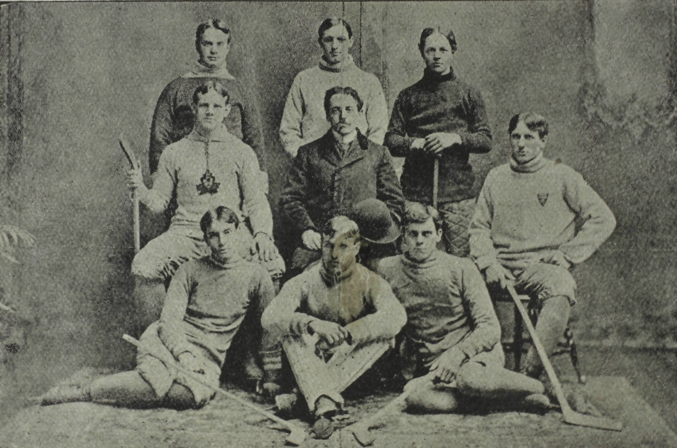 Toronto Varsity Hockey Club, 1899.